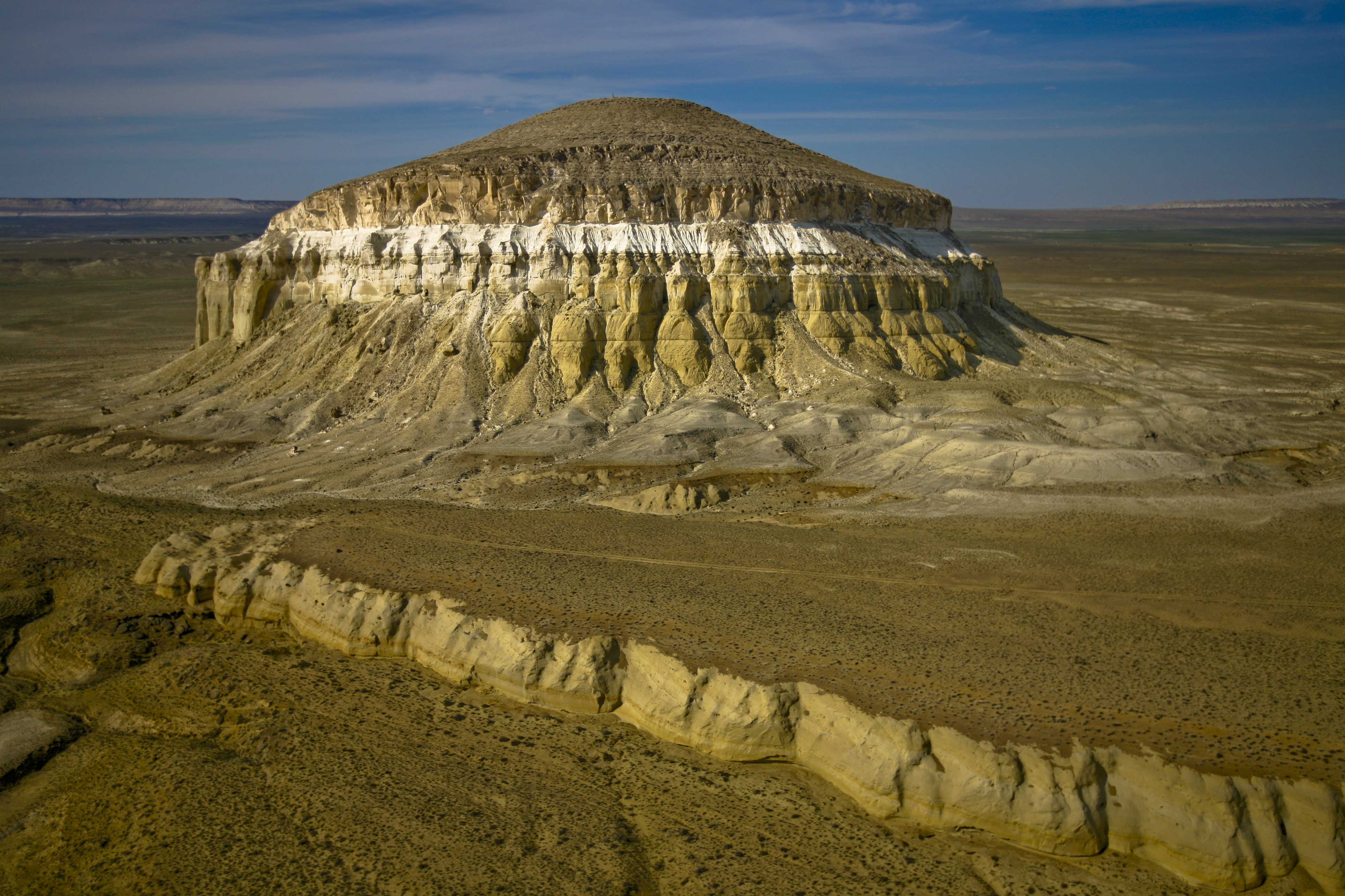 Sherqala, Шерғала